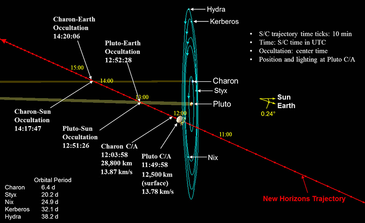 A diagram of New Horizons' encounter with Pluto.